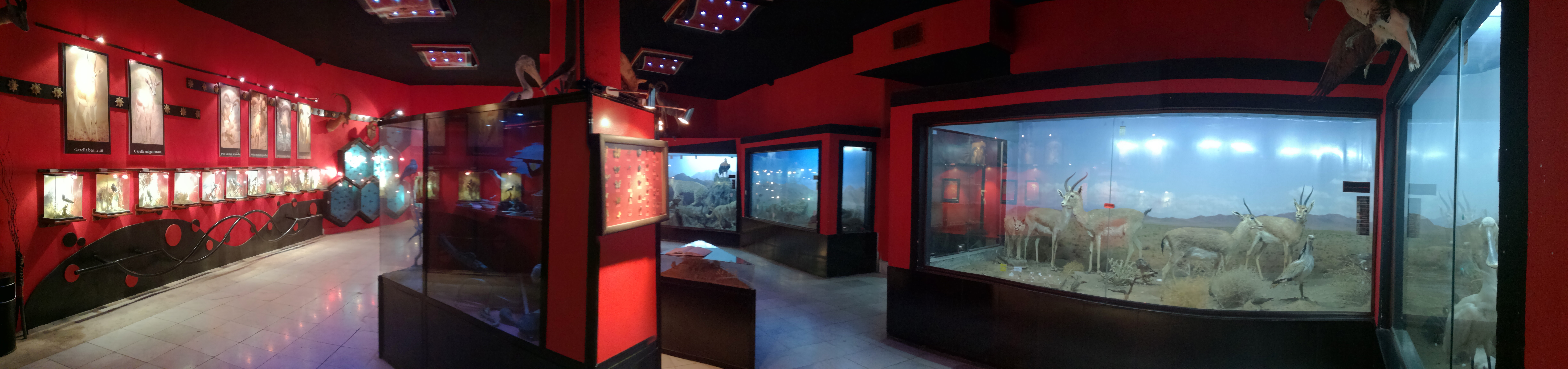 Panorama of Wildlife museum of sabzevar